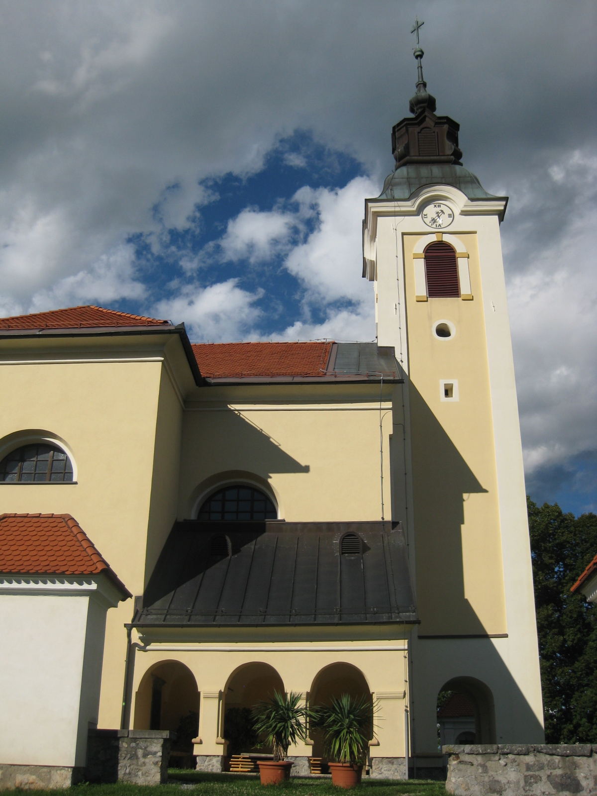 Žalostna gora church, near Podpeč, Slovenia